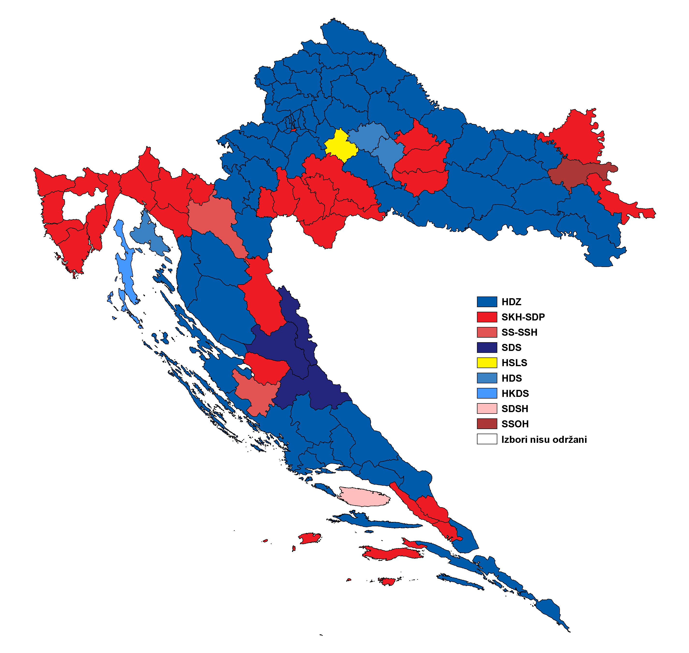 1990 election results for the Croatian Parliament, based on elected members for the Council of Municipalities. Elections were not held in one municipality (Pazin). Complete results of the election